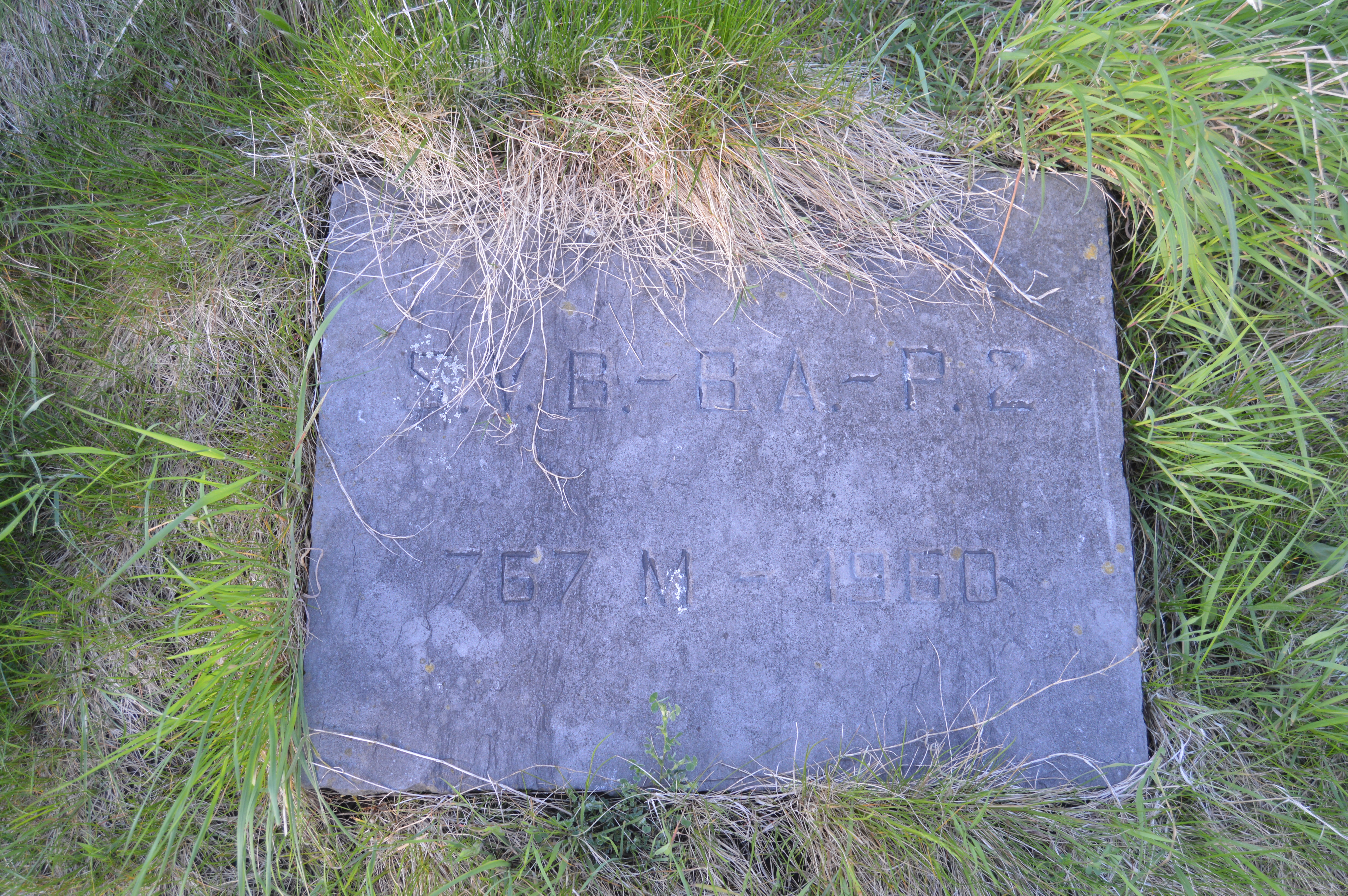 Ancient pit of the Bois d'Avroy coal mine, in Liège, Belgium